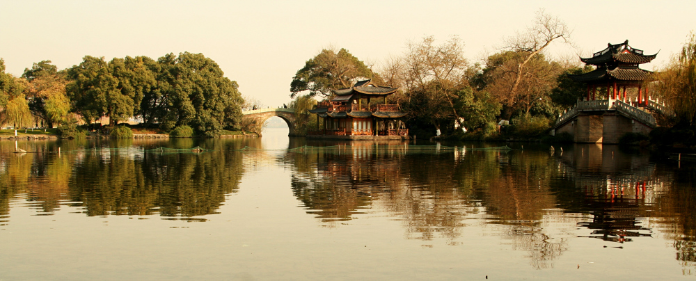 West Lake, Hangzhou, China